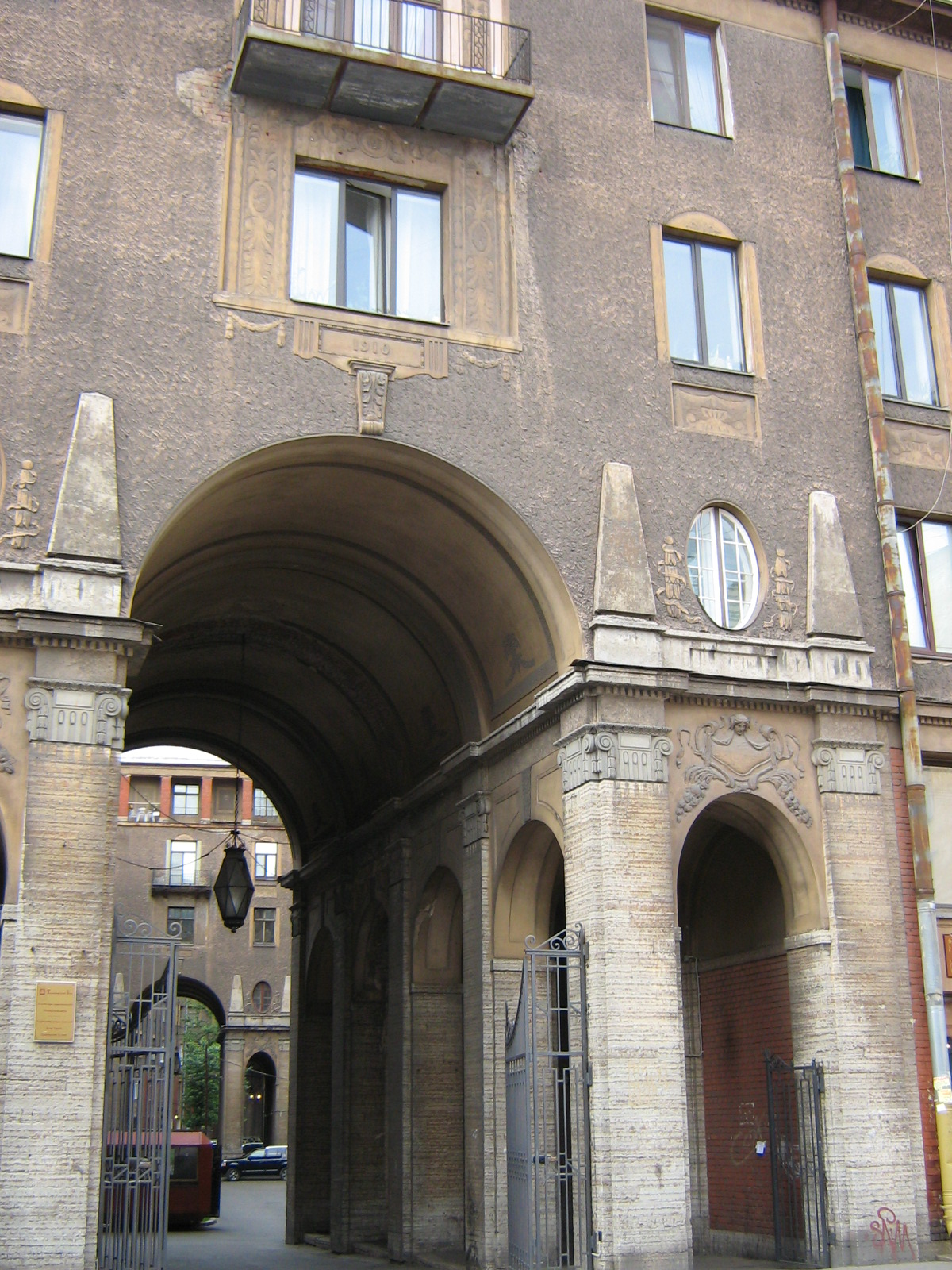 "Tolstovsky dom" (House of M.P.Tolstoy): 15-17 Rubinstein street, Saint-Petersburg, Russia. Architect Fedor Lidval, 1910-1912.